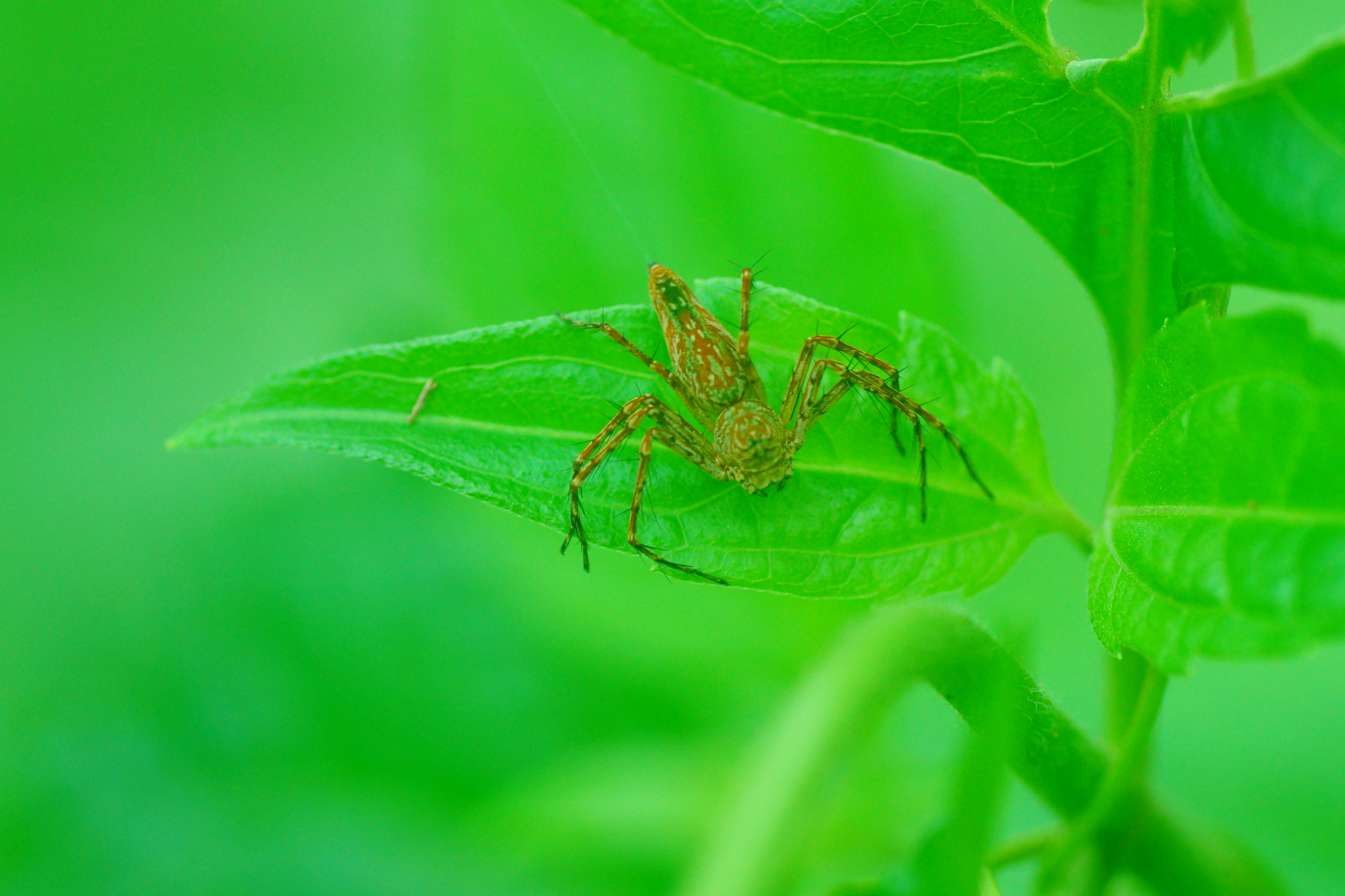 Hamadruas